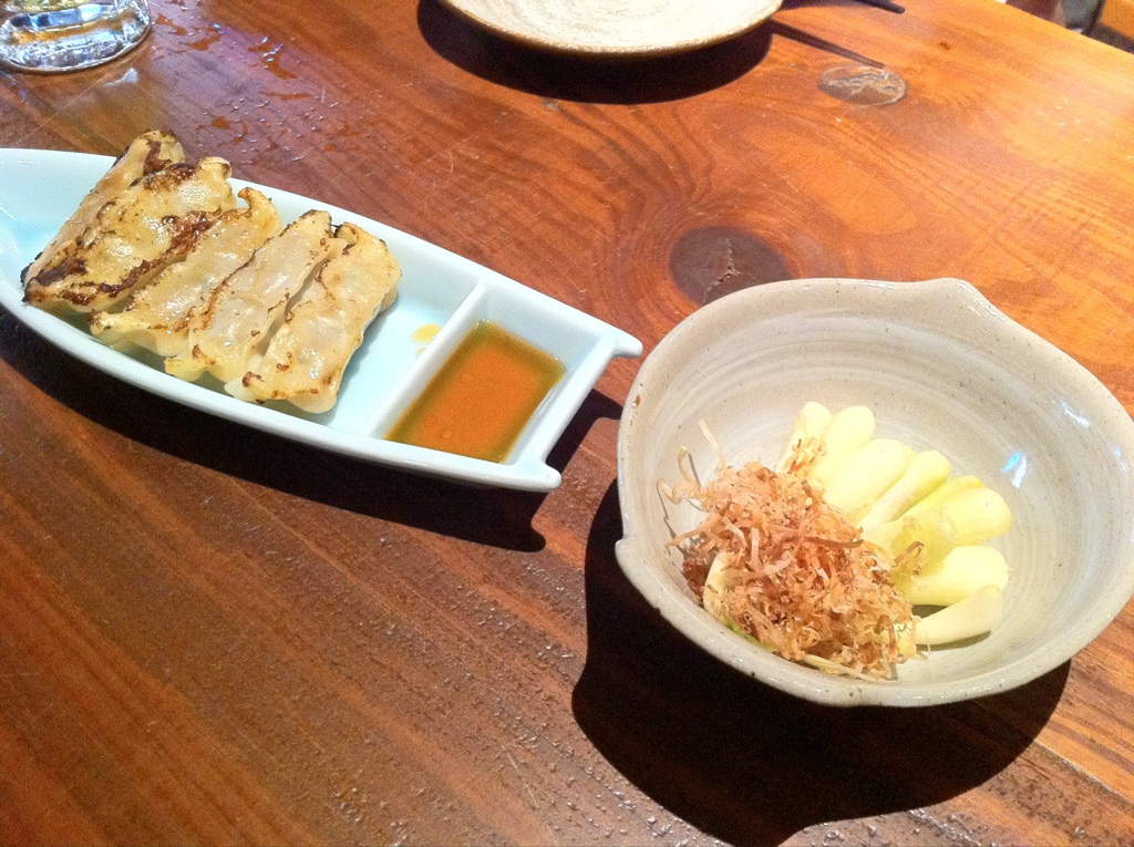 Posted by